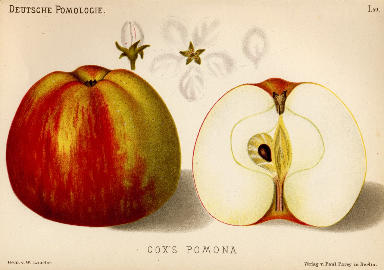 Illustration 59 from Deutsche Pomologie - Aepfel Apple cultivar shown: Cox's Pomona